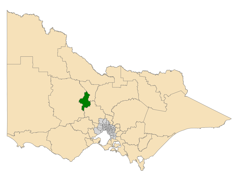 Location of the Electoral District of Bendigo West (dark green) in the state of Victoria, Australia. These boundaries were used for the Victorian state election on 29 November 2014.